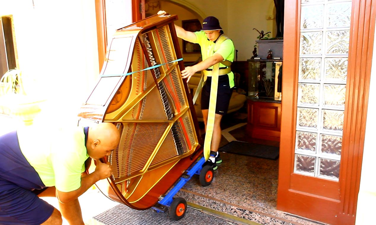 The trolly can be used to carry piano's over steps. Here they are moving a baby grand piano over steps.